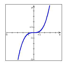 The function f ( x ) = x 3 5 {\displaystyle f(x)={\frac {x^{3 {5 } .